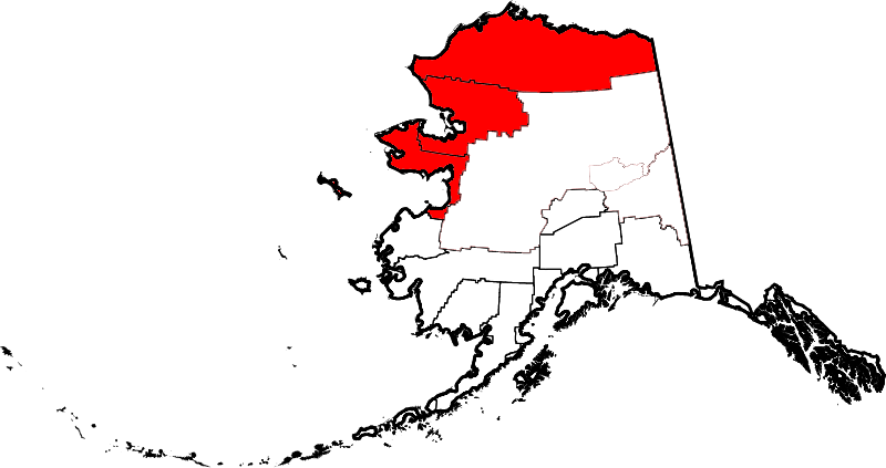 Map of Arctic Alaska adapted to borough and census area boundaries, based on the Far North region of this Alaska Office of Economic Development map